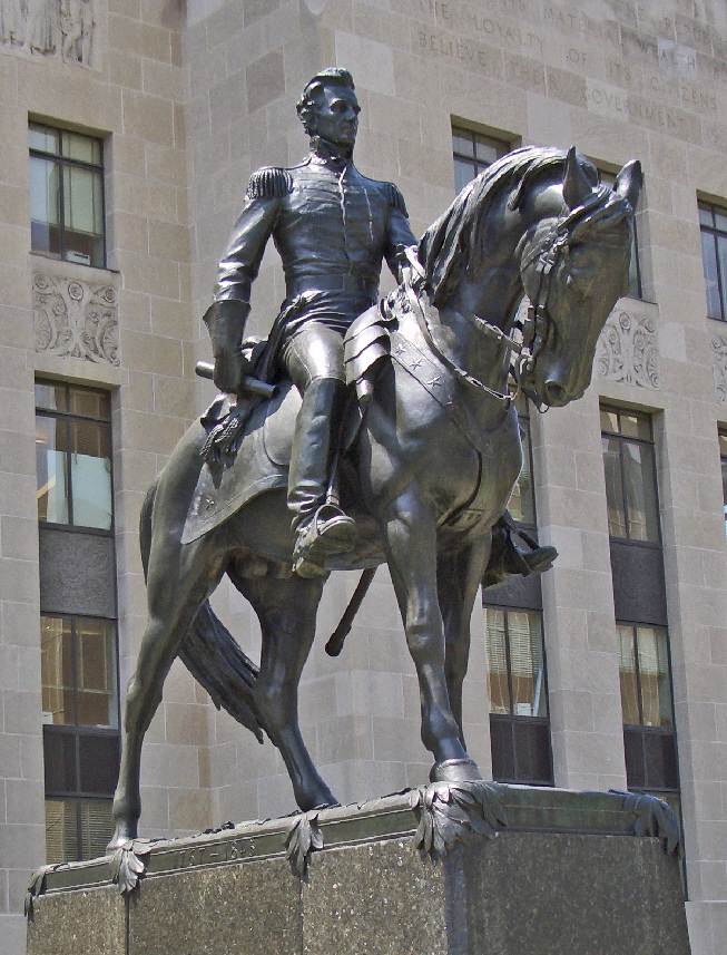 Andrew Jackson statue in front of Jackson County Courthouse, Kansas City, Missouri